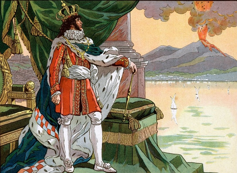 Joachim Murat, roi de Naples.